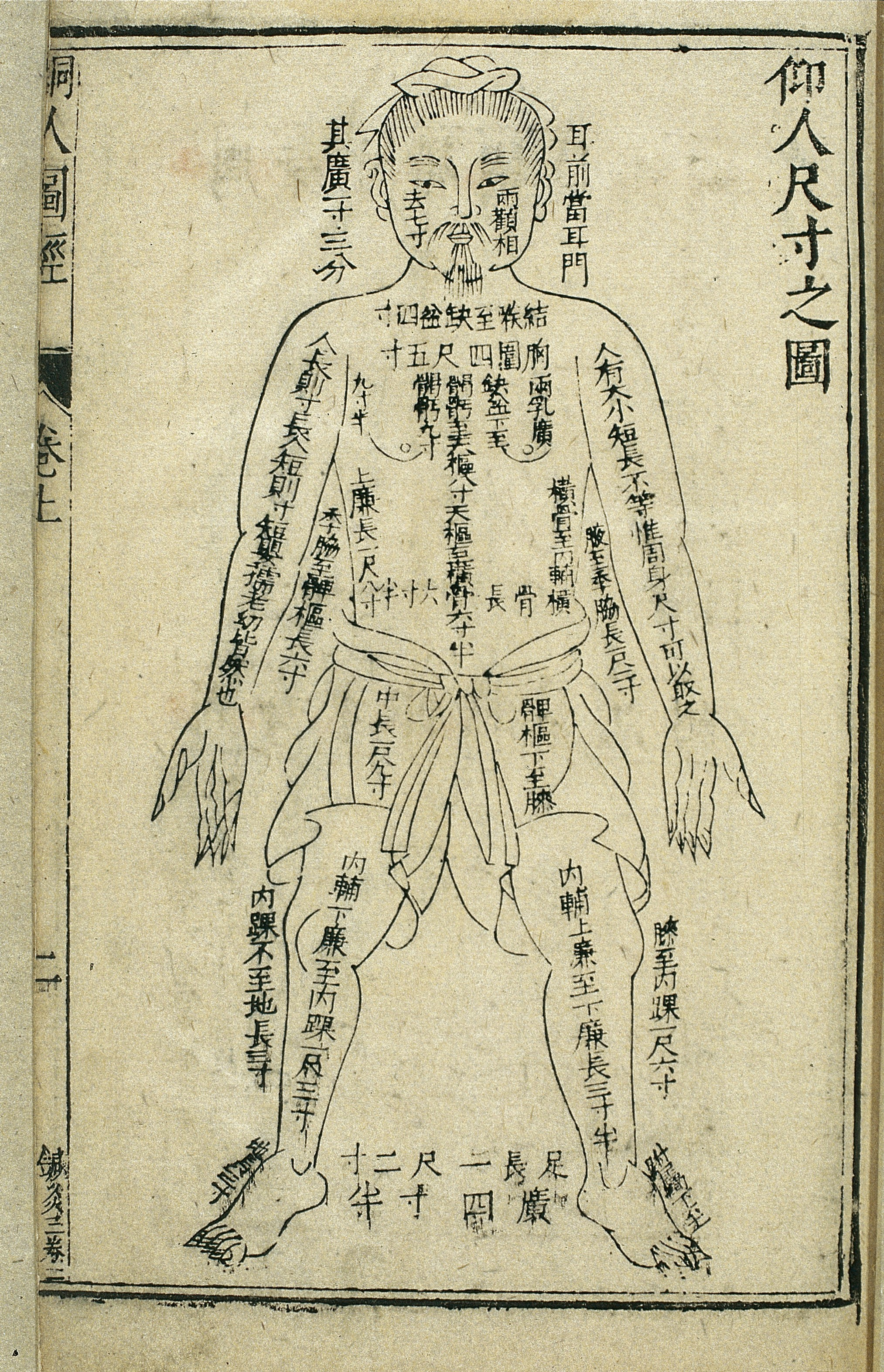 Woodcut fromTong ren shu xue zhen jiu tu jing(Illustrated Manual of Acupoints on the Bronze Man) by Wang Weiyi, published in 1443 (8th year of the Zhengtong reign period of the Ming Dynasty), illustrating the system of proportionate body measurements. This illustration consists of a simple outline drawing of a human body, viewed from the front. Captions on the image indicate the distances between various landmarks on the surface of the body, as an aid in establishing the location of acupoints and the paths of the channels at the front of the body. For instance, the sides of the head are labelled: 'From the front of the ears to theermenpoint is 1cun5'; the face is labelled 'Distance between the cheekbones 7cun', etc. The units of measurement are thechi[Chinese foot] andcun[Chinese inch], the length of thecunbeing based on the proportions of the individual's body, i.e. 1cun= the distance from the base of the middle finger to the end of the crease of the middle joint. 10cun= 1chi. See 'Lettering' for further details. NB. There are close similarities between this image, L0037494 and L0037955. Wellcome Images Keywords: Medicine, Chinese Traditional; Proportionate body measurement; Bronze figure; Measurement